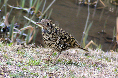 in winter.